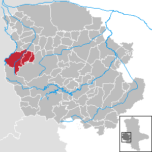 VG Ilsenburg (Harz) in Saxony-Anhalt - District Harz